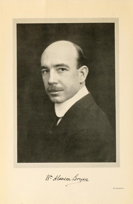 William Alanson Bryan (1875-1942) was an American zoologist, ornithologist, naturalist and director of the Natural History Museum of Los Angeles County.